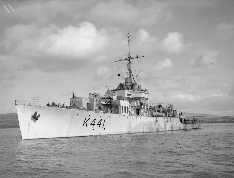 Photograph of River class frigate HMS Monnow, off Greenock.